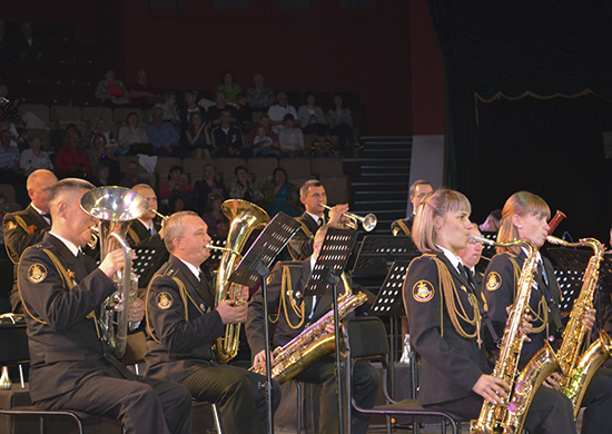 Военные музыканты ВВО выступят на международном фестивале «Труба мира-2018» в Пекине